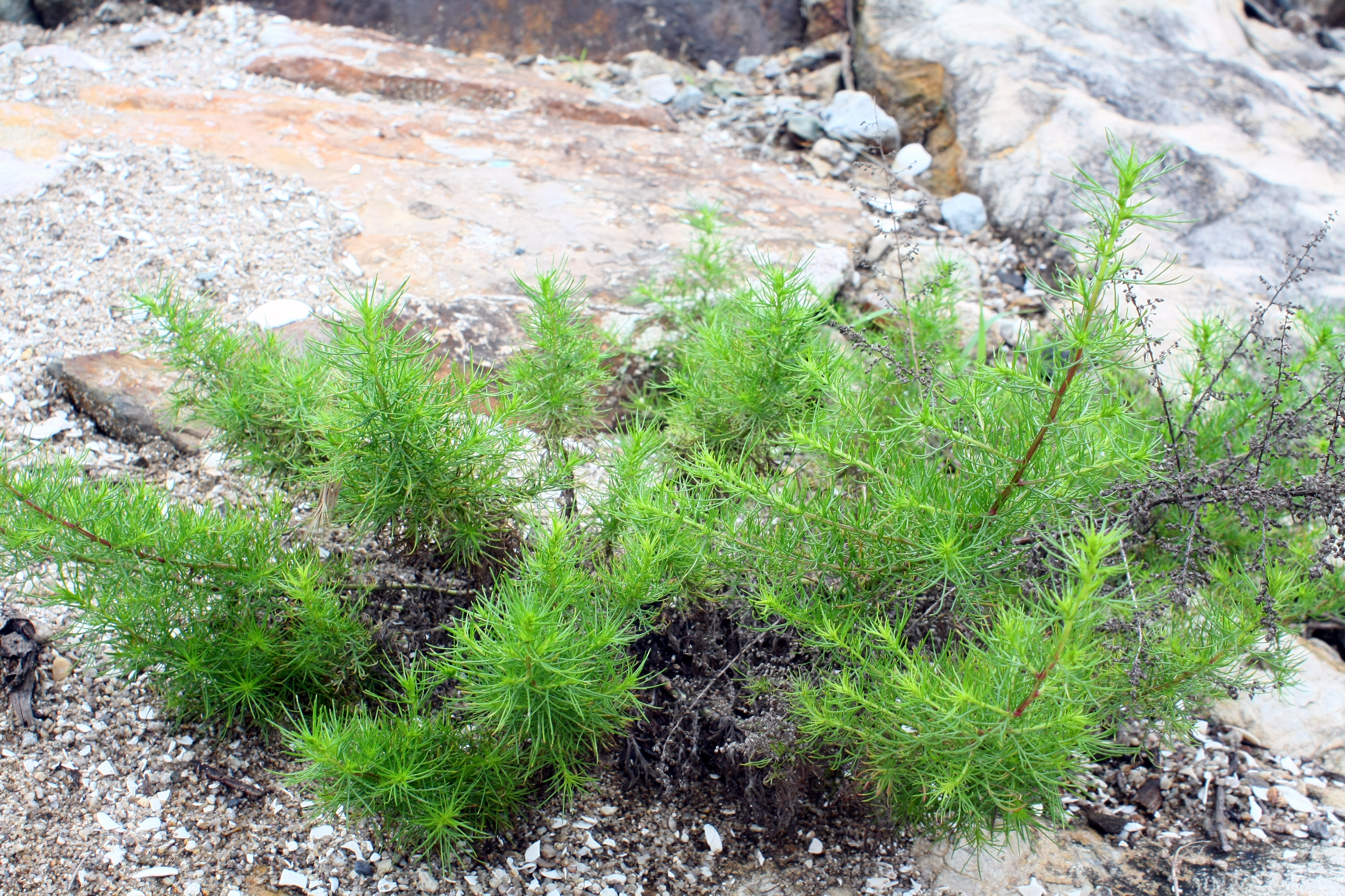 Suaeda glauca in siheung, Korea